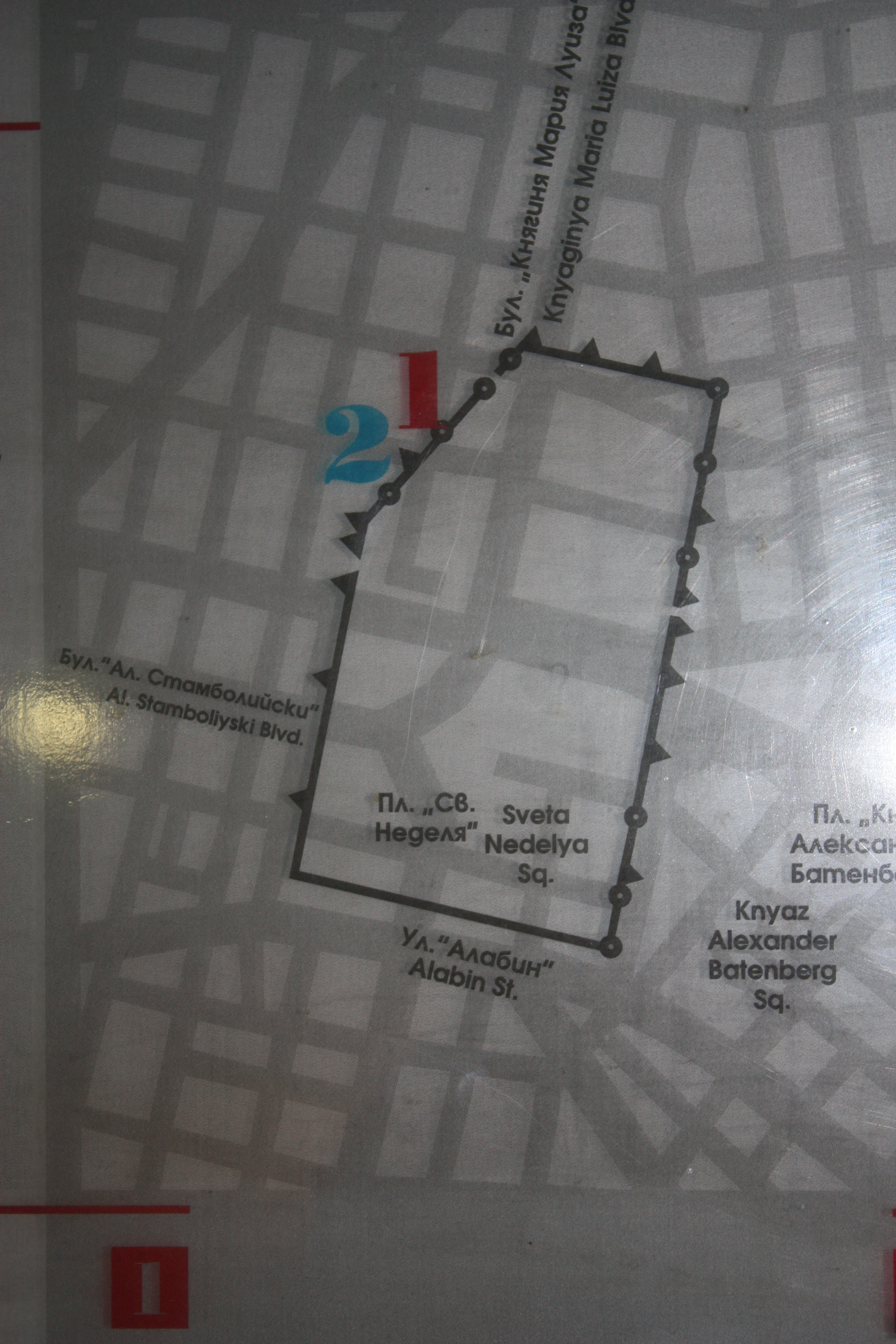 Serdica Fortress, Remains of Serdica fortress walls in the basement of central market hall Sofia, Bulgaria, Ruinen der Festunsmauer von Serdica, heute Sofia, im Untergeschoss der Zentralmarkthalle in Sofia